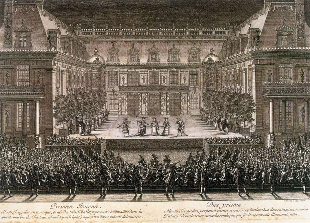 Performance of Lully's opera Alceste ("ornamented with ballet entrées") in the Marble Court at Versailles on 4 July 1674, the first day (Premiere Journée) of the grand divertissement ordered by Louis XIV to celebrate his recent victories in Franche-Comté